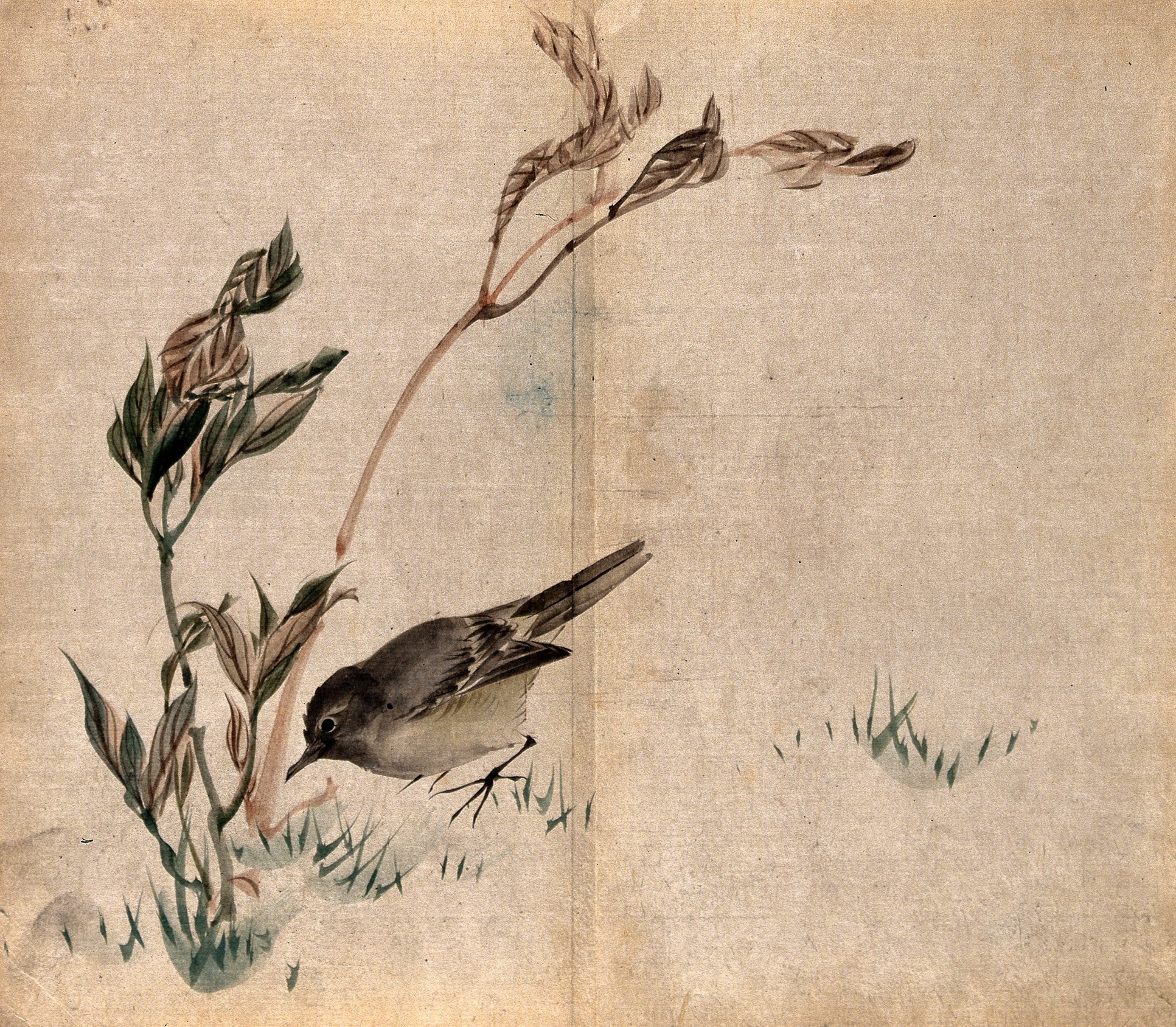 A bird, possibly a chiffchaff, pecking at the base of a leafy plant. Watercolour. Iconographic Collections